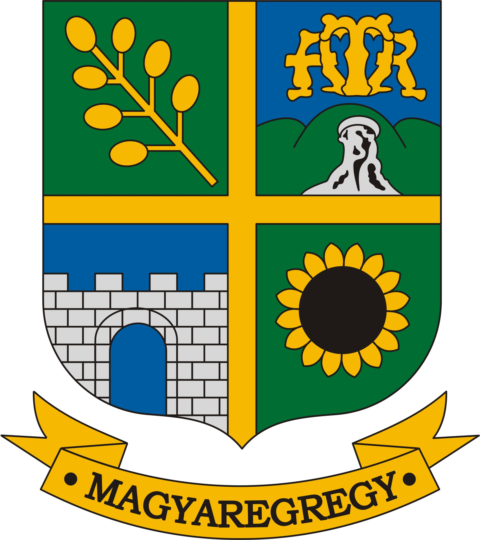 Coat of arms of Magyaregregy, Hungary